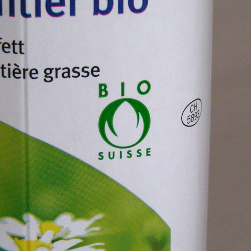 Former version of the Bio Suisse logo.